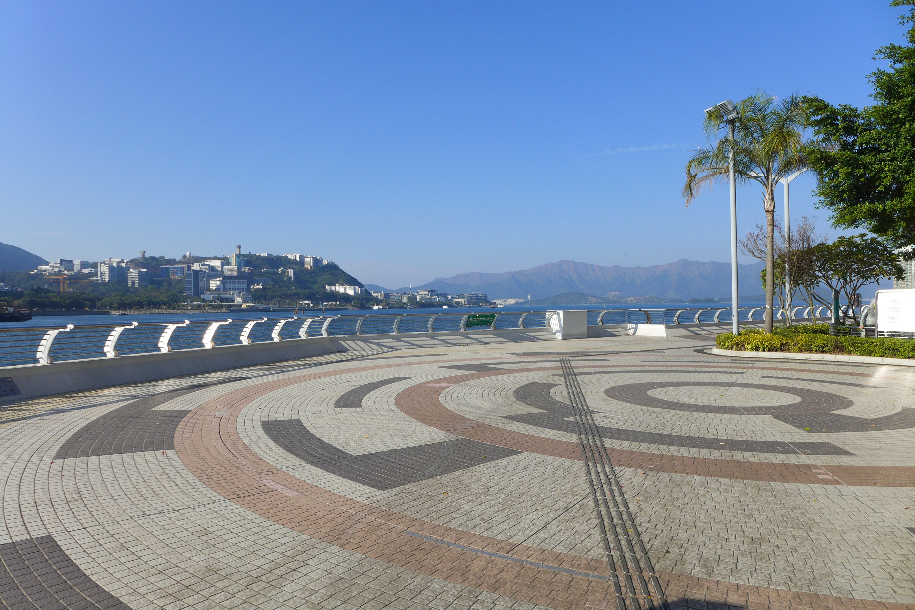 Ma On Shan Waterfront Promenade